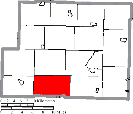 Map of the municipal and township boundaries of Harrison County, Ohio, United States, as of the 2000 census, with the location of Moorefield Township highlighted. Township borders are shown only in unincorporated areas in order to differentiate incorporated and unincorporated areas more clearly.